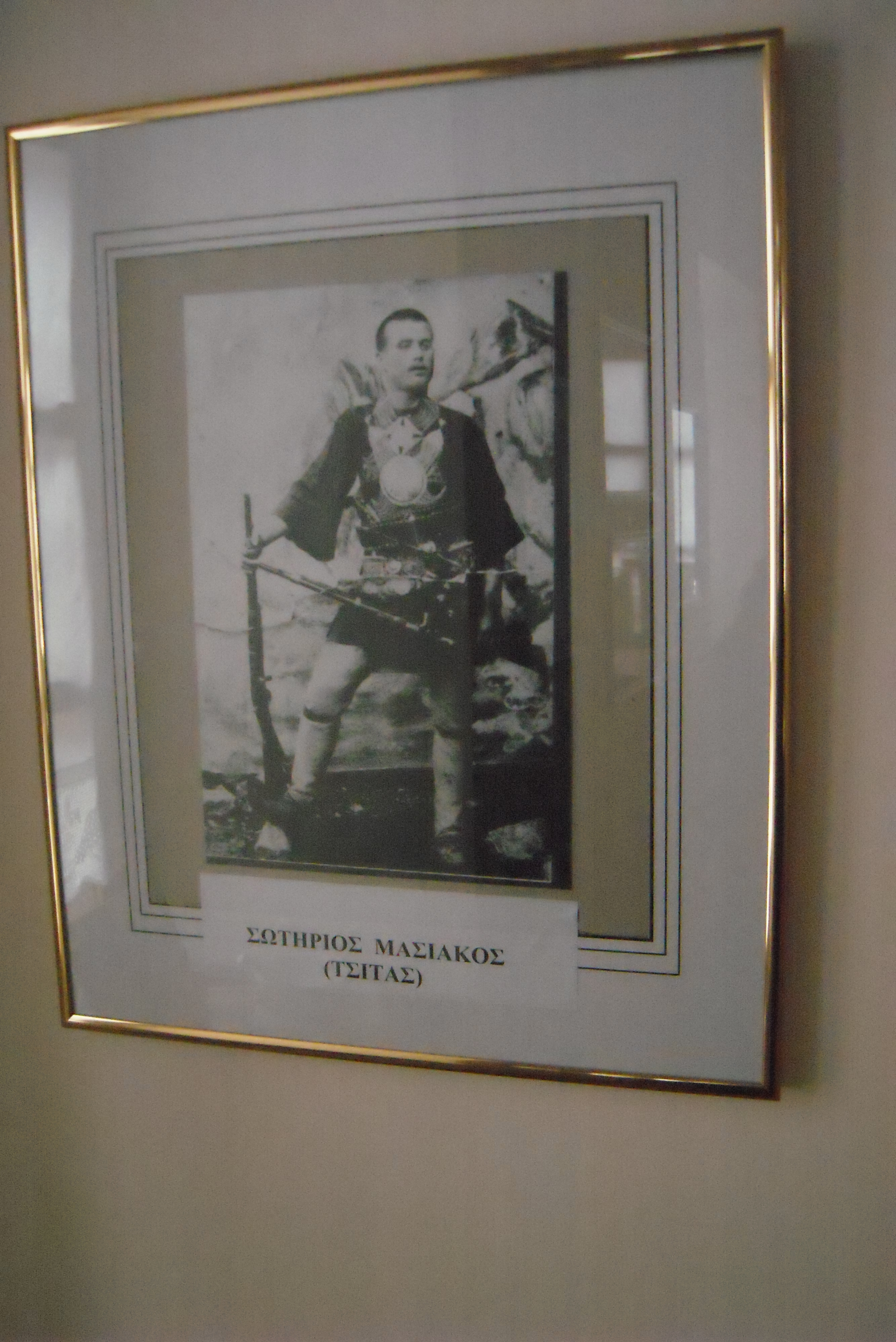 Sotirios Masiakos Tsitas